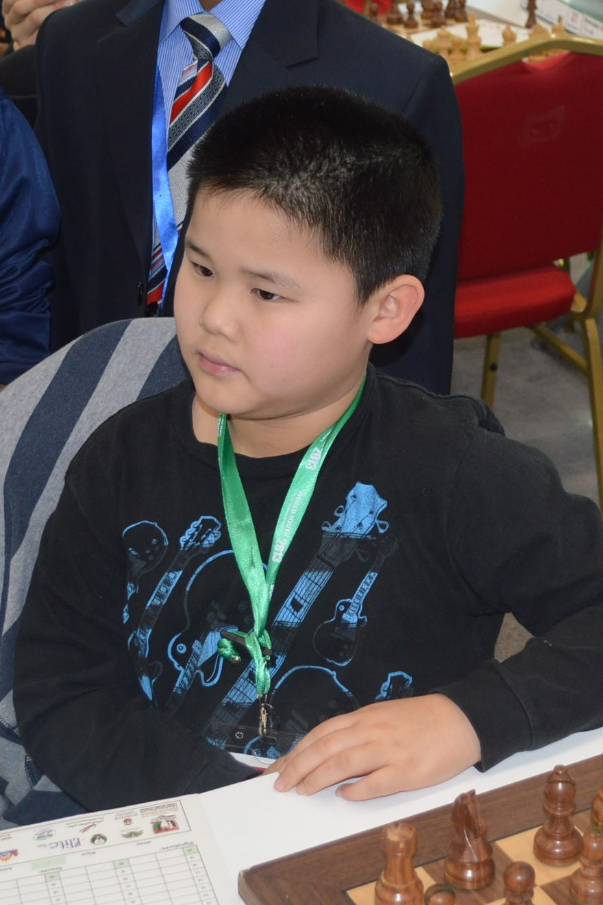 Liang Awonder, World Youth Chess Championship Al-Ain, 2013